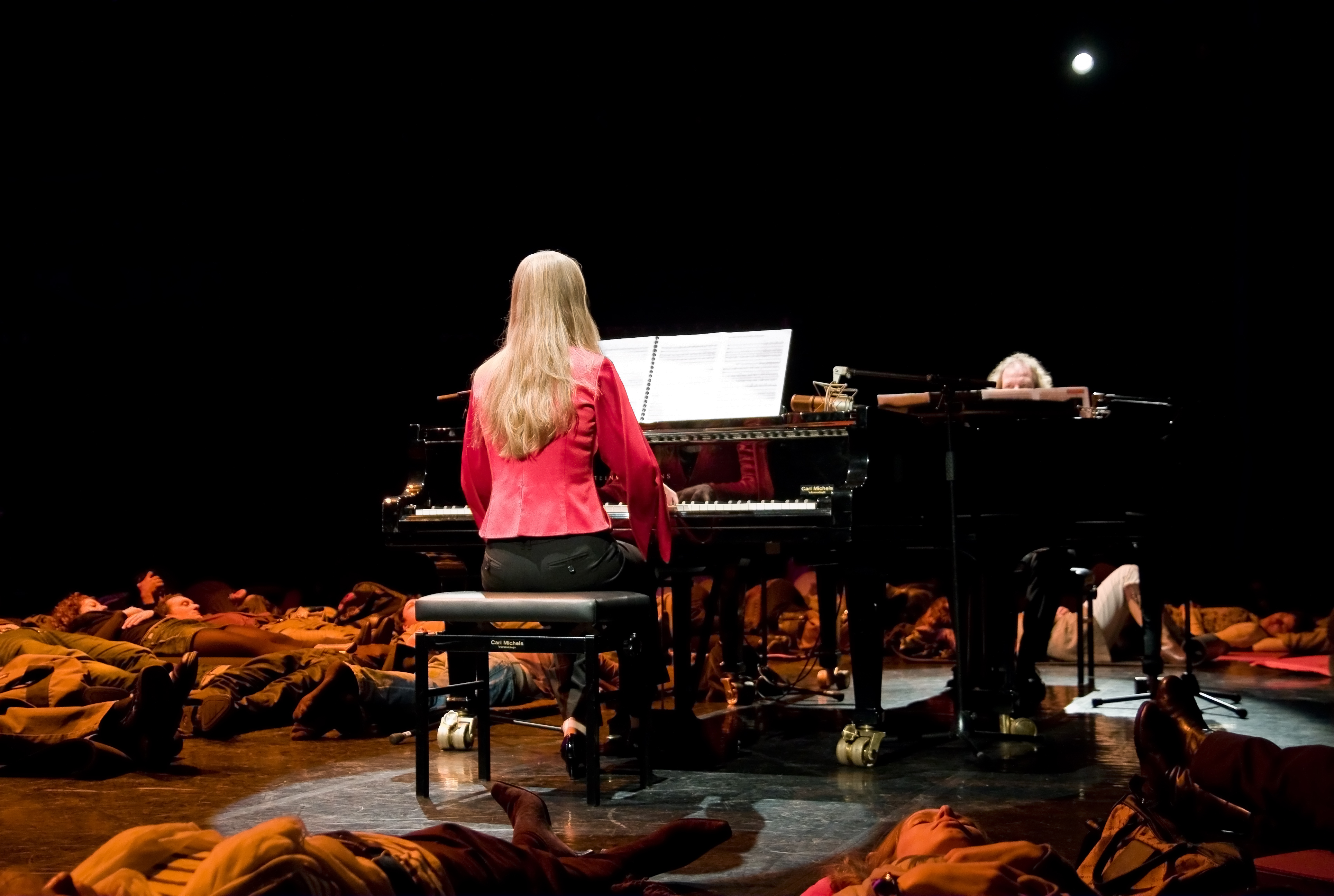 Canto ostinato Canto ostinato (composed by Simeon ten Holt) performed by Jeroen & Sandra van Veen on two grand pianos at Theater De Regentes, The Hague. The audience was invited to bring mattresses and lie down around the pianos. There is a whole website dedicated to this unique and unsurpassed composition of the Dutch composer Simeon ten Holt